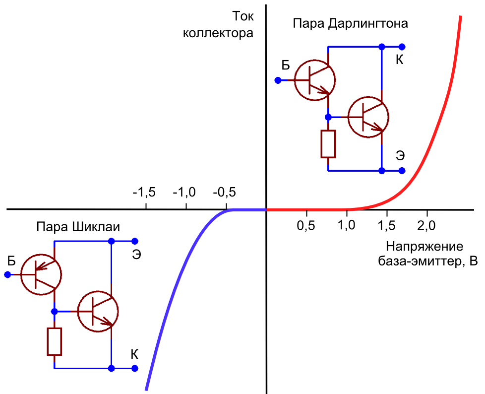 Quasicomplementary follower stage - Asymmetry